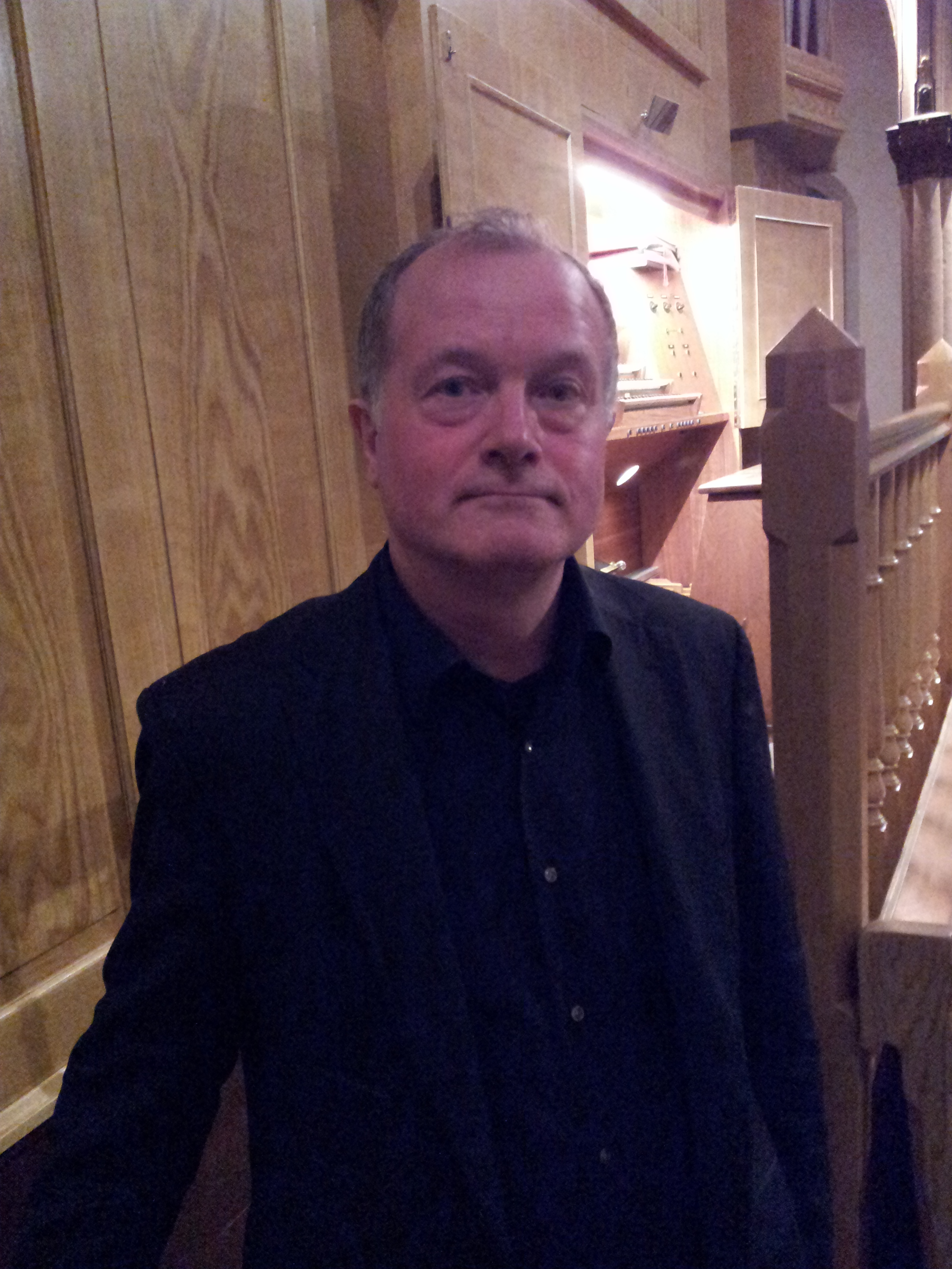 Cantor Kåre Nordstoga